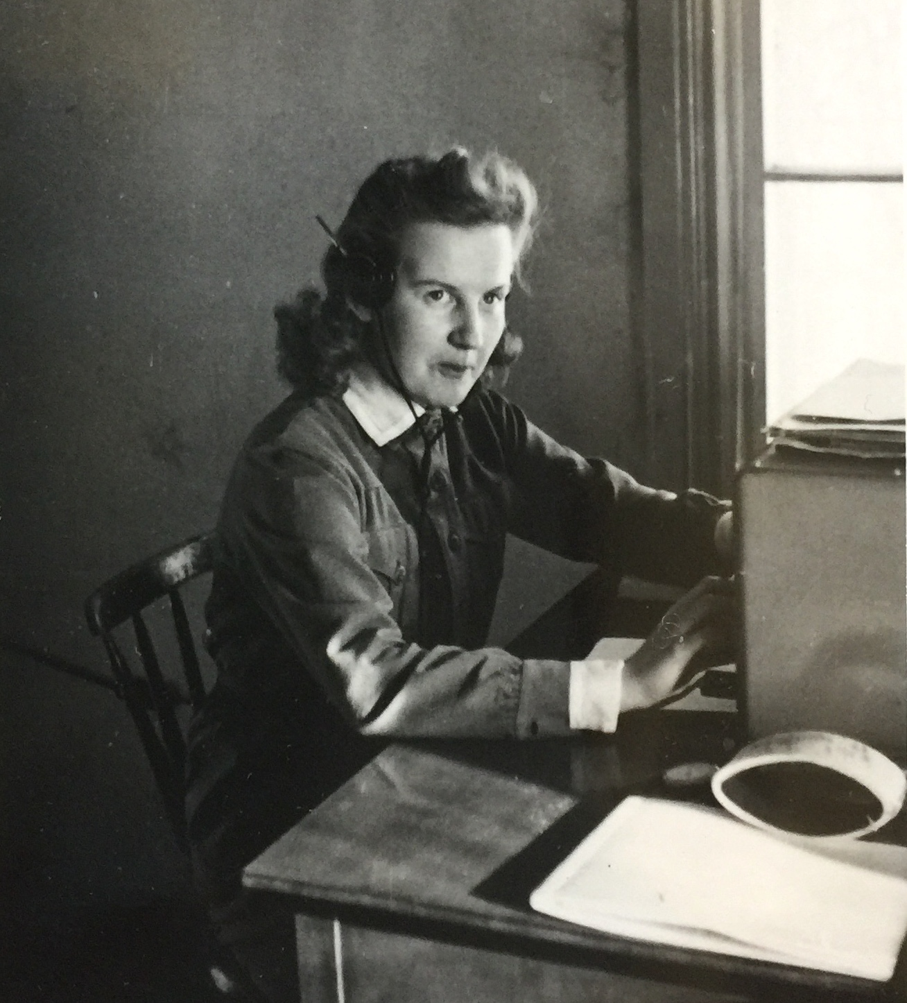 Picture of Maija Suurla serving as a Lotta during 1942 in Rovaniemi at her workplace.